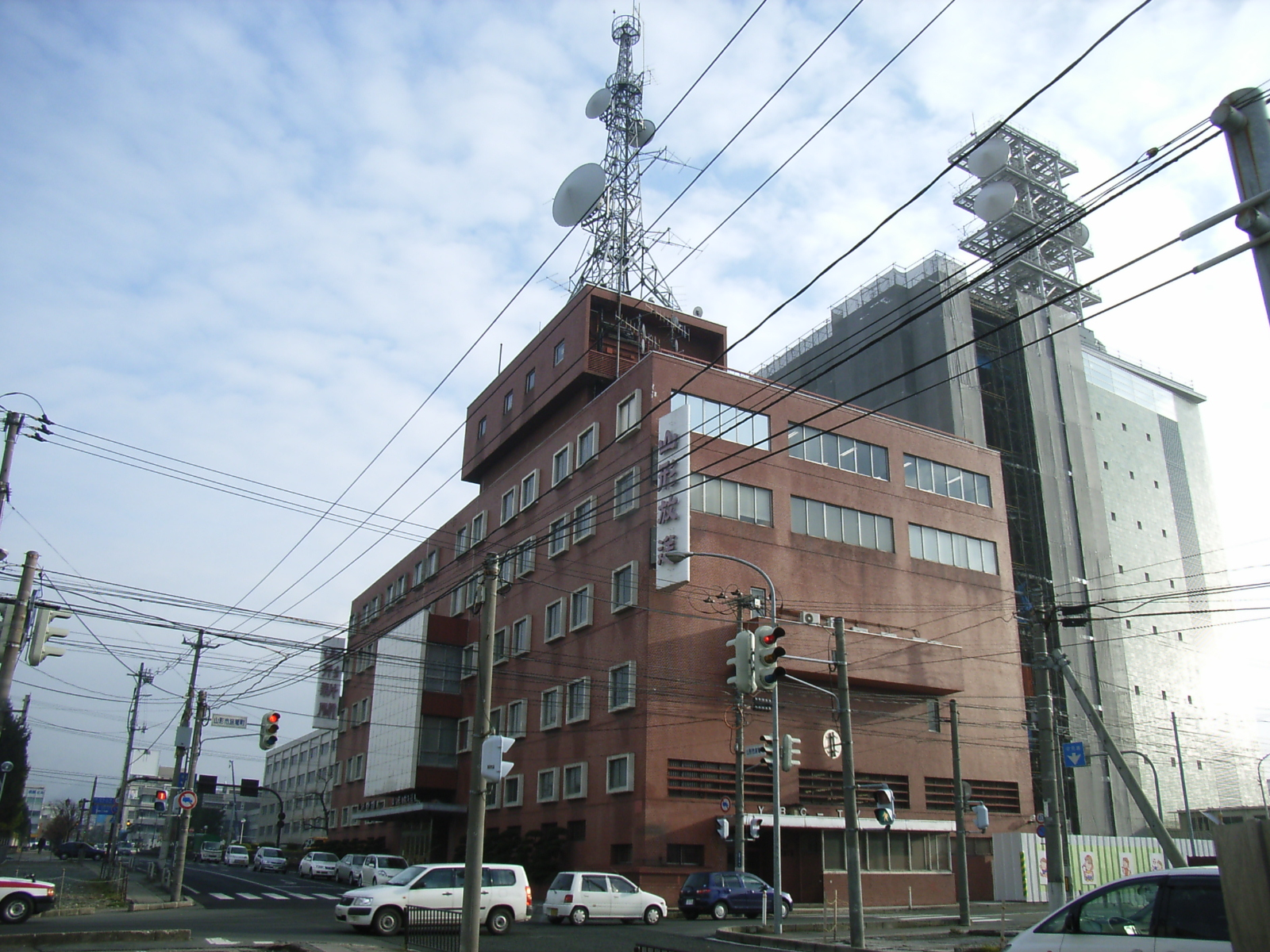 Yamagata Shimbun & Broadcasting Building. Hatagomachi, Yamagata|, Yamagata prefecture, Japan.